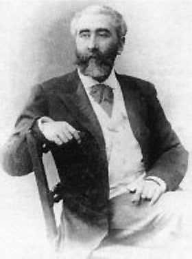 José-Maria de Heredia (1842-1905), Cuban-born French poet.